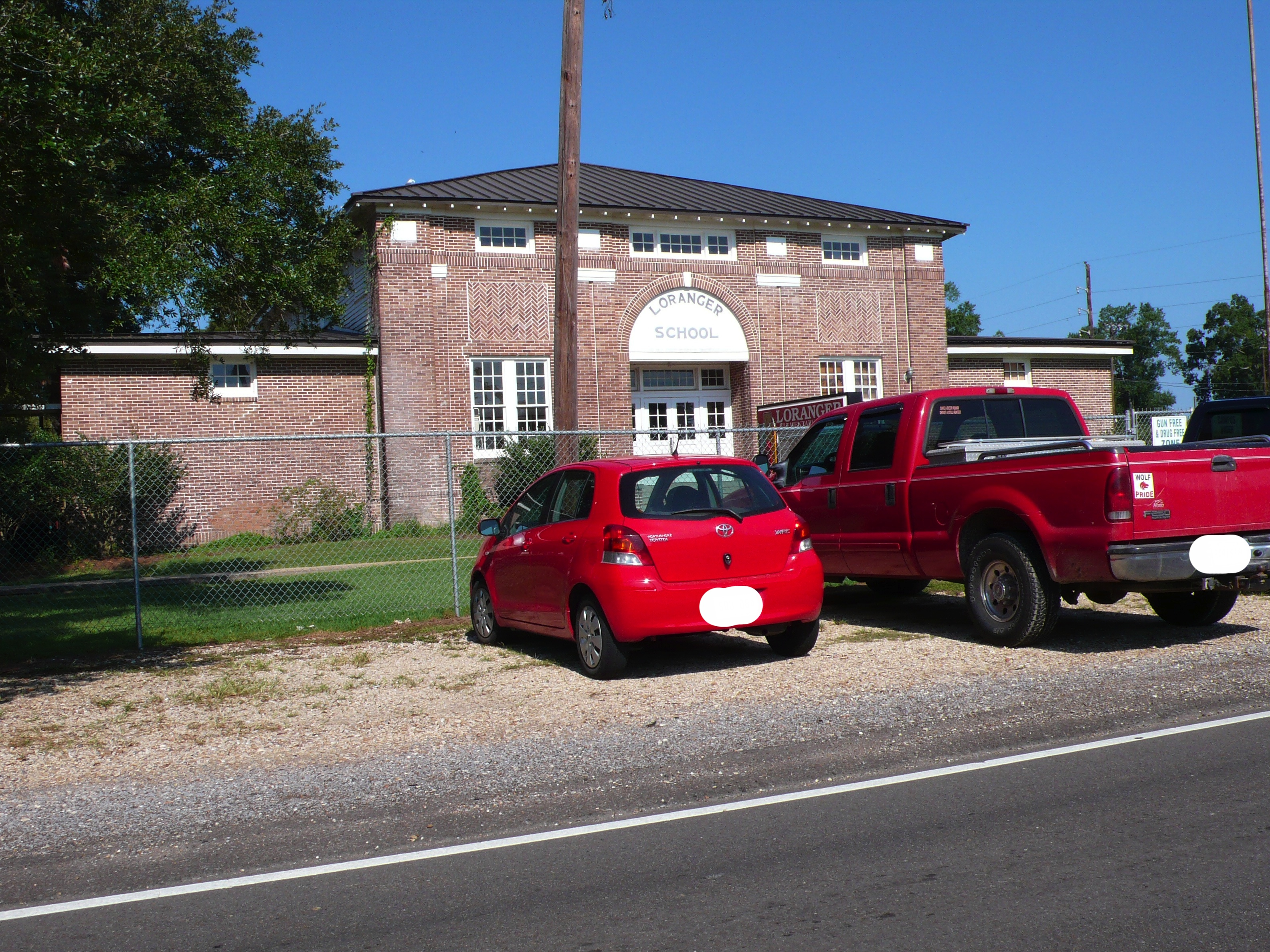 The old school building in Loranger, Louisiana